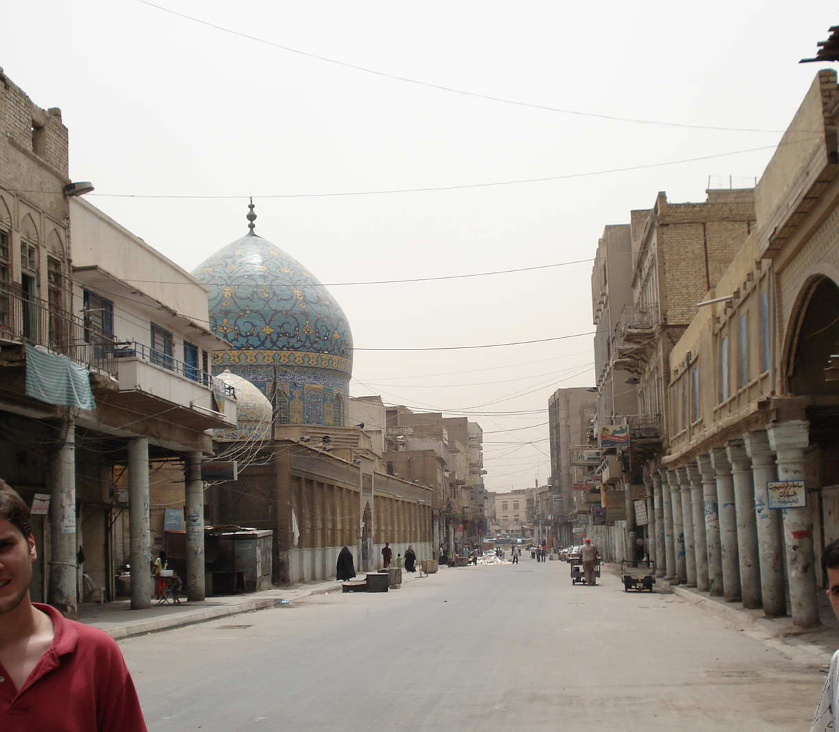 Al Rasheed Street in Baghdad (Iraq)